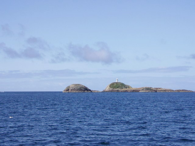 Suil Ghorm. Rocks and lighthouse north east of Coll.